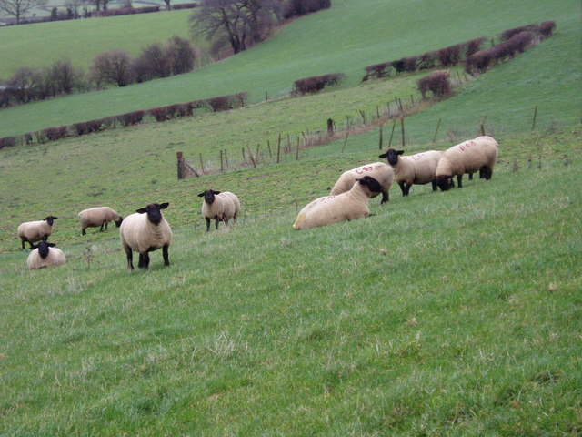 Black-faced sheep Grazing on the hillside, on the western side of the Vale of Clwyd.